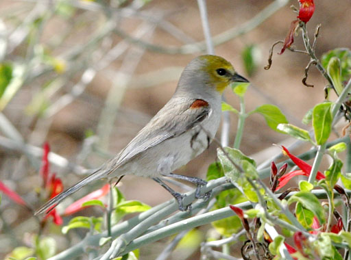 Verdin Auriparus_flaviceps. Location: Scottsdale, Arizona, United States. (Correct version is actually PCCA20050310-5779B)